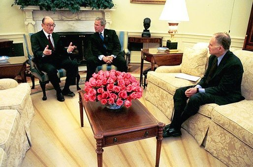 President George W. Bush talks with Federal Reserve Board Chairman Alan Greenspan in the Oval Office Tuesday, May 18, 2004. President Bush sent the U.S. Senate his nomination to reappoint Mr. Greenspan as the Federal Reserve Board Chairman Tuesday afternoon. Also pictured is National Economic Council Director Stephen Friedman, right. White House photo by Joyce Naltchayan